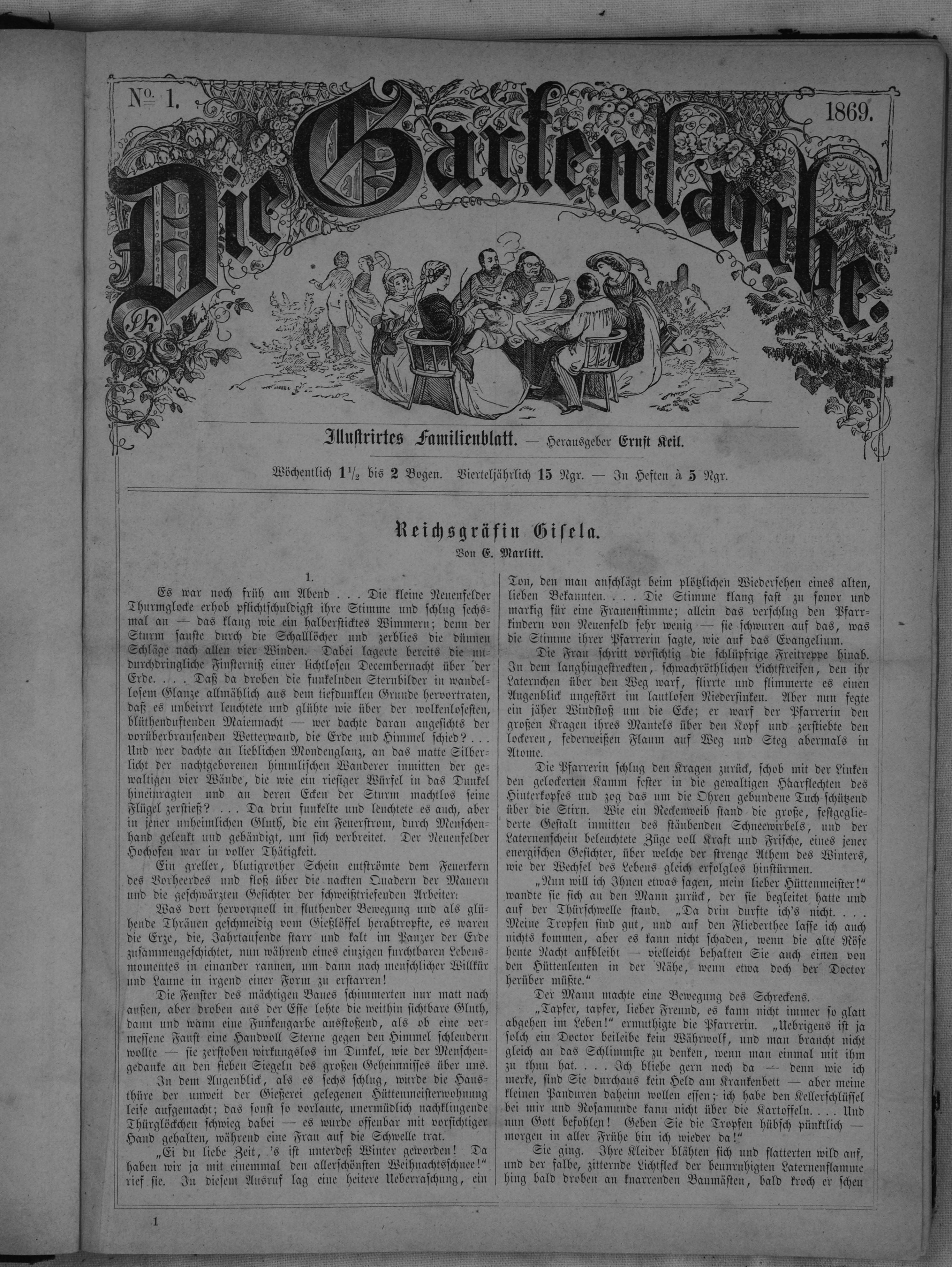 no caption